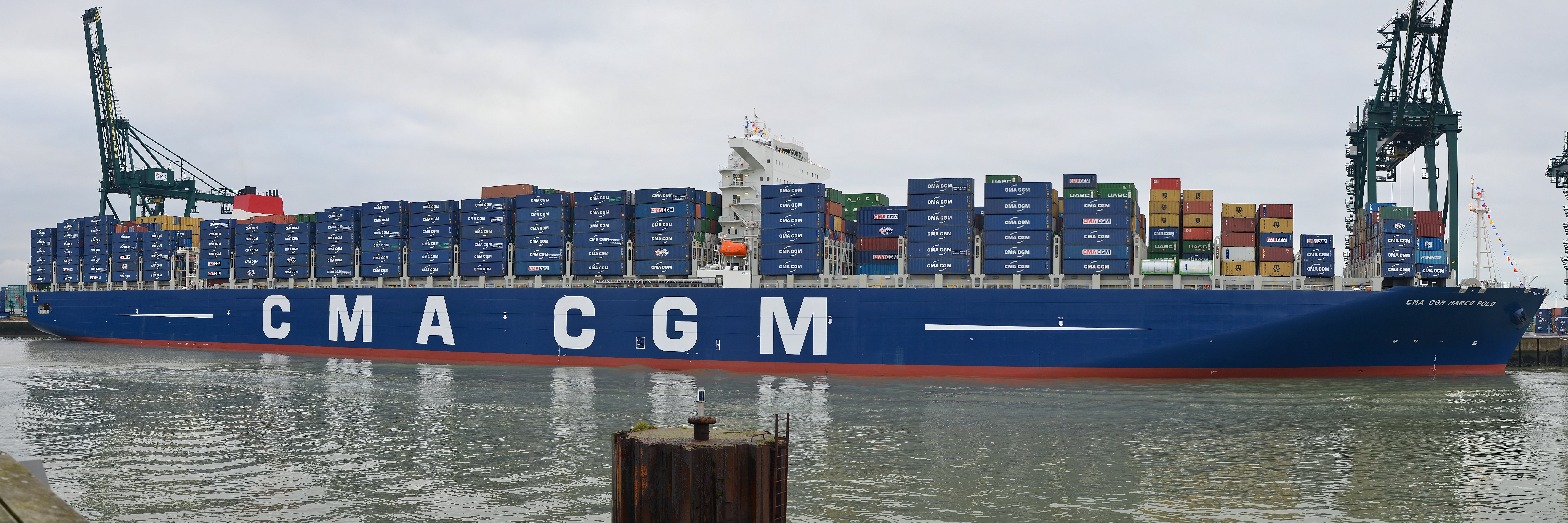 The CMA CGM Marco Polo at Zeebrugge port, Belgium. IMO Number: 9454436 MMSI Number: 235095231 Callsign: 2FYD5 Length: 396.0 m Beam: 53.6 m